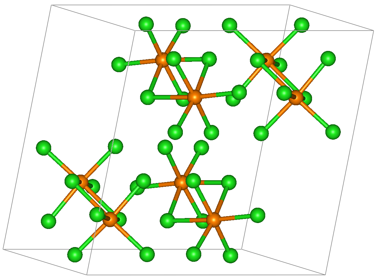 ReCl5 structure. Green atoms are chlorine. Data from ACTA CRYSTALLOGRAPHICA B 24 (1968) 874-879 "The Crystal Structure of ReCl5" Mucker K., Smith G.S., Johnson Q.